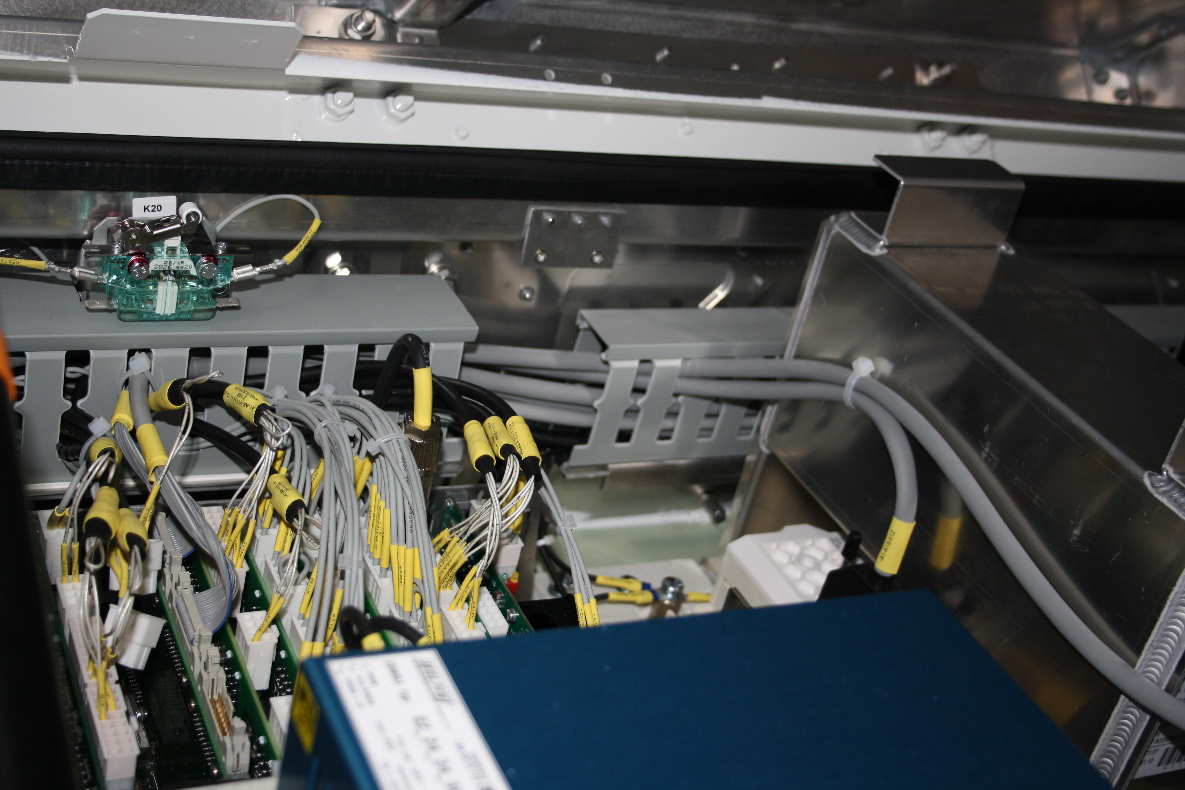 Slotted cable trunking system (power container for trolley)